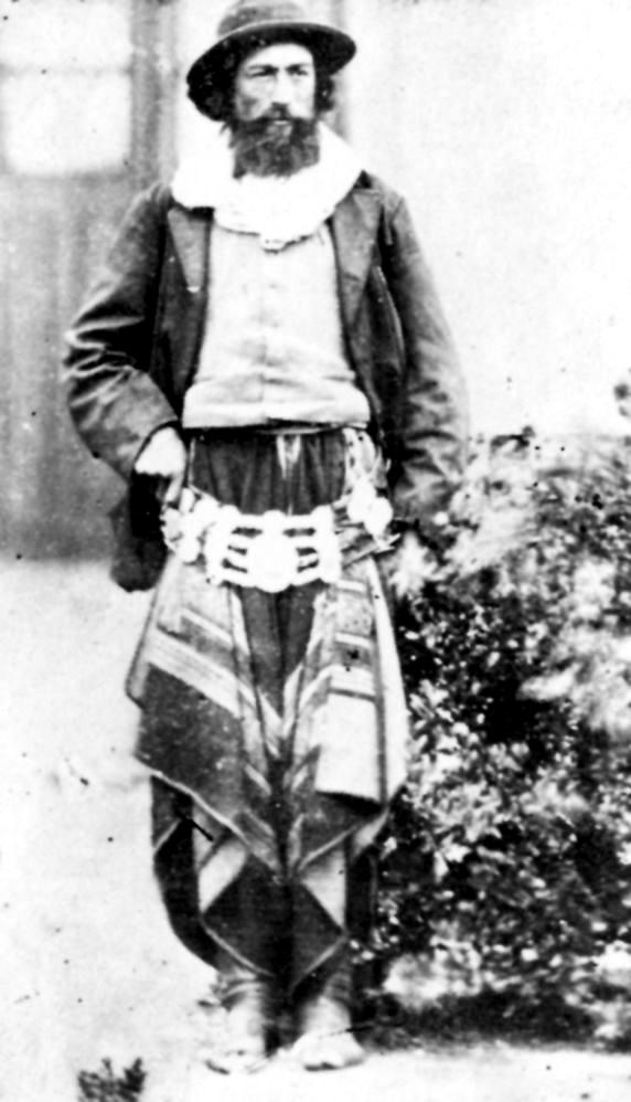 Argentine Gaucho.